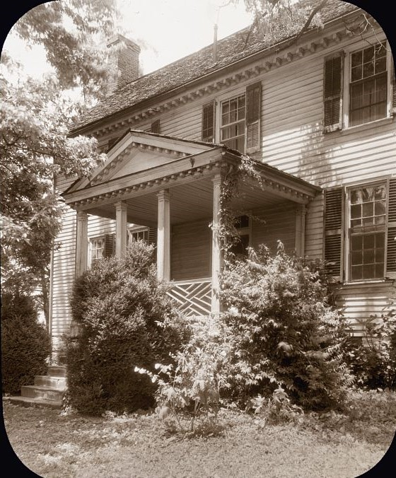 Title [Plain Dealing, Charlottesville vicinity, Albemarle County, Virginia. Entrance porch] Contributor Names Johnston, Frances Benjamin, 1864-1952, photographer Created / Published [1933] Subject Headings - Houses--Virginia--Albemarle County--1930-1940 - Porches--Virginia--Albemarle County--1930-1940 Format Headings Lantern slides--1930-1940. Notes - Site History. House Architecture: Original frame house built for John Biswell in 1761 and enlarged in 1789. Today: House is extant. - On slide (handwritten): "Plain Dealing, Albermarle." - Slide for lecturing on "Tales Old Houses Tell." - Title and date based on same image in the Carnegie Survey of the Architecture of the South, LOT 12643-2, VA-1253, with additional information from Sam Watters, 2011. - Forms part of: Garden and historic house lecture series in the Frances Benjamin Johnston Collection (Library of Congress). - Formerly in Box 34. Medium 1 photograph : glass lantern slide, sepia-toned ; 3.25 x 4 in. Call Number/Physical Location LC-J717-X106- 12 [P&P] Repository Library of Congress Prints and Photographs Division Washington, D.C. 20540 USA Digital Id ppmsca 16582 //hdl.loc.gov/loc.pnp/ppmsca.16582 Library of Congress Control Number 2008675882 Reproduction Number LC-DIG-ppmsca-16582 (digital file from original item) Rights Advisory No known restrictions on publication. Online Format image Description 1 photograph : glass lantern slide, sepia-toned ; 3.25 x 4 in. LCCN Permalink